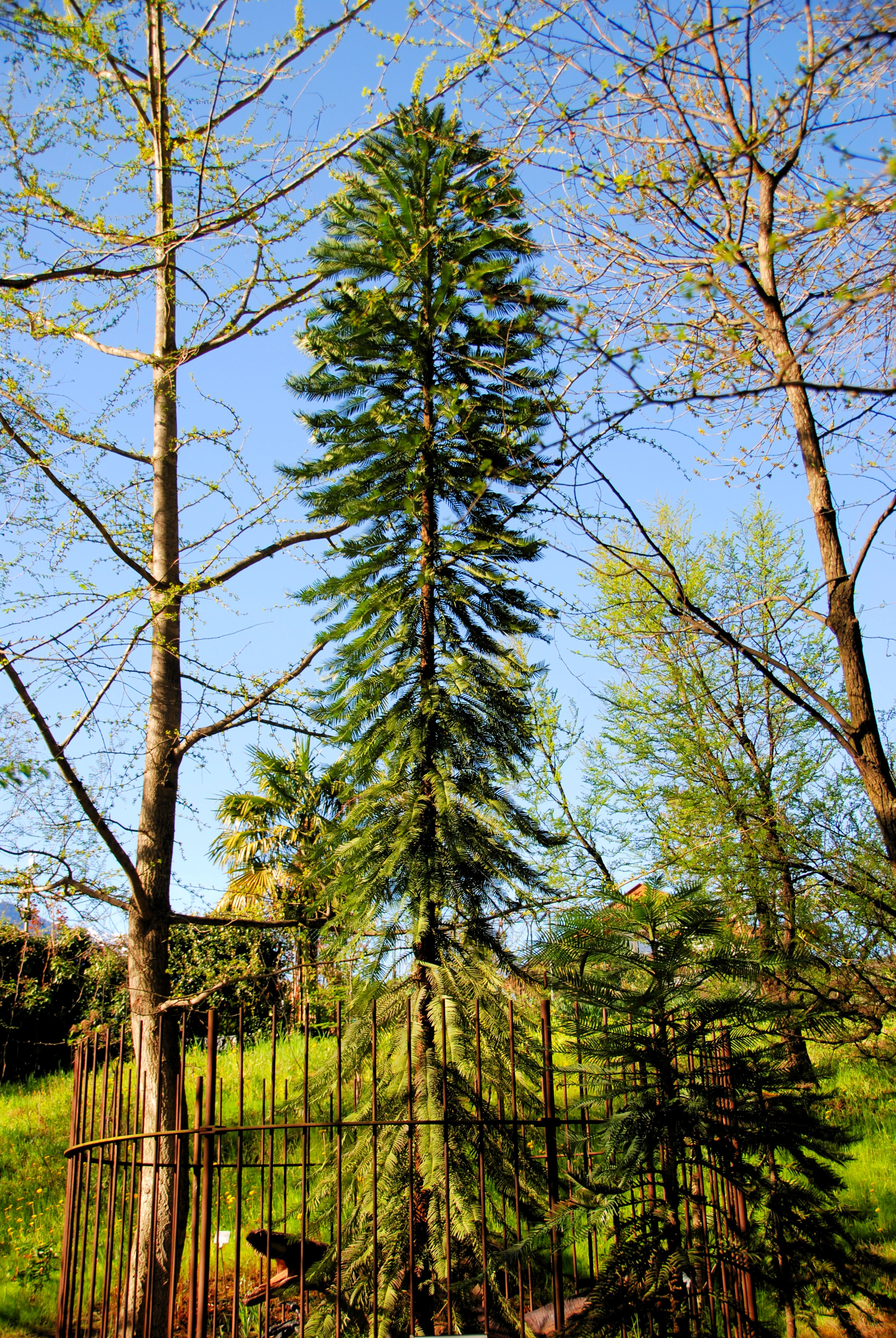 Wollemia Nobilis in Trautmannsdorf Castle Botanical Garten in Merano Südtirol Italy in 2018